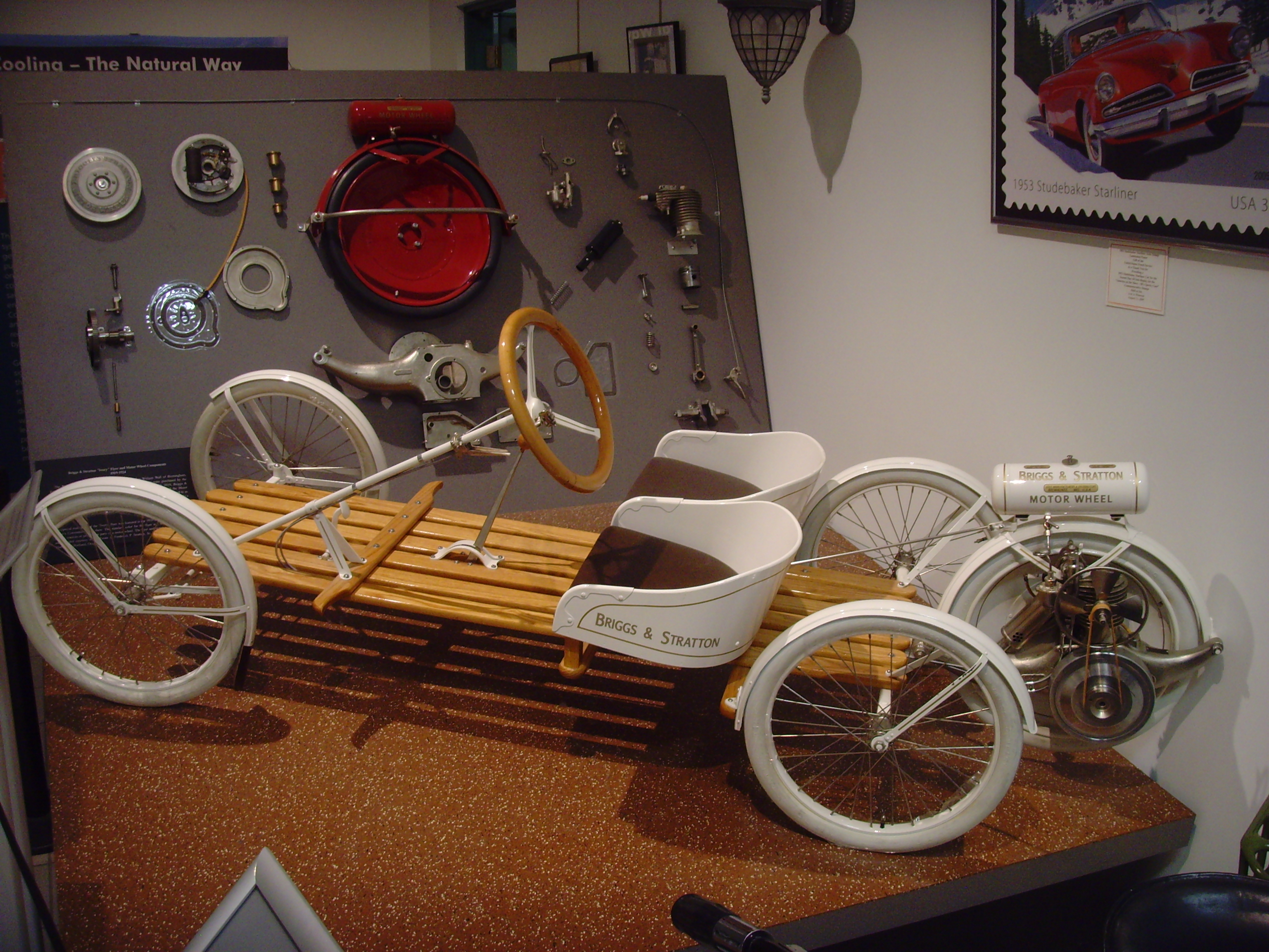 0180 Hershey - Antique Automobile Club of America Museum